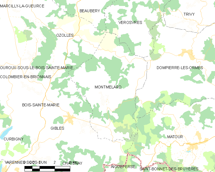 Map of French municipality